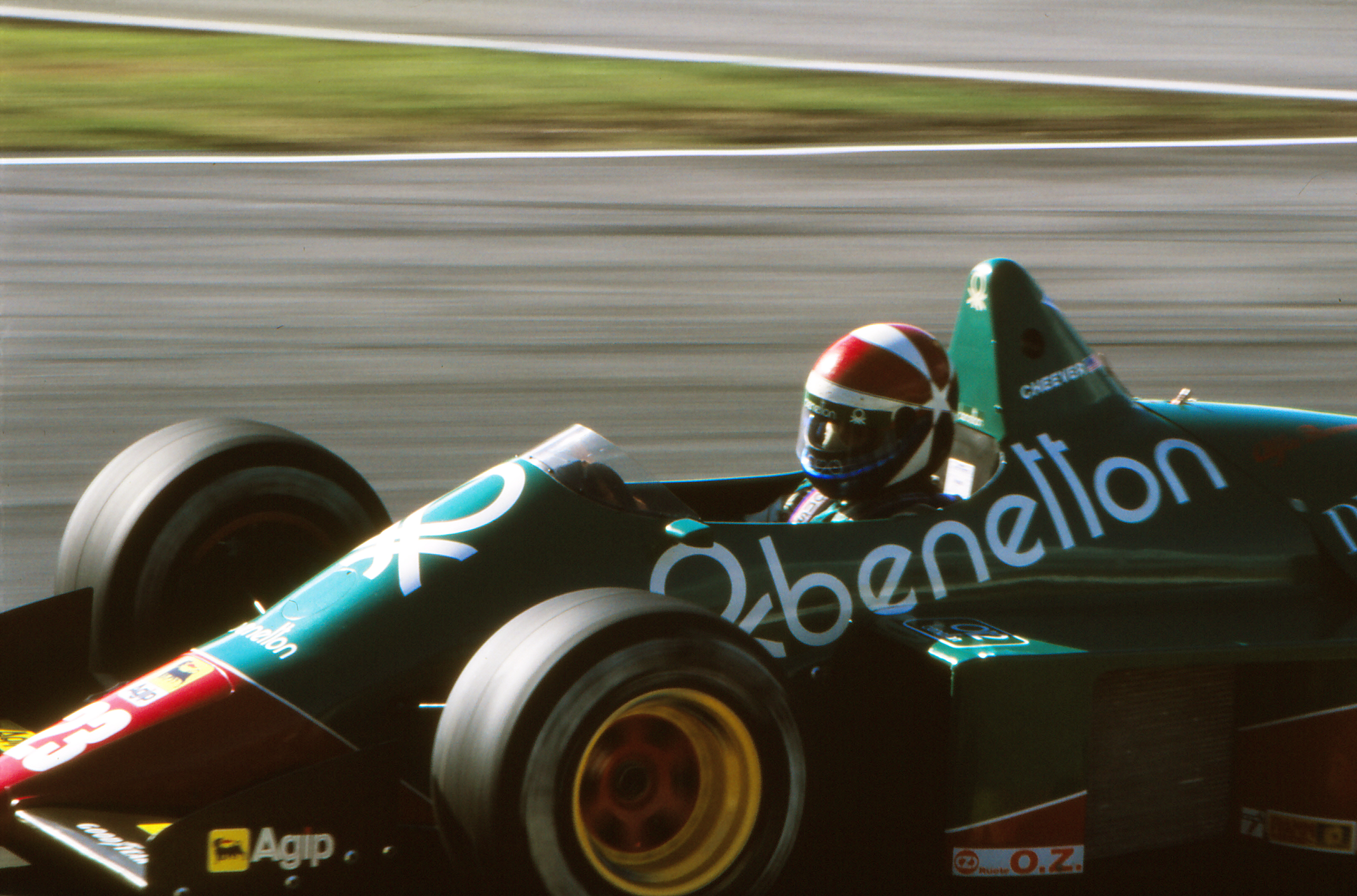 Eddie Cheever during practice for the 1985 European GP